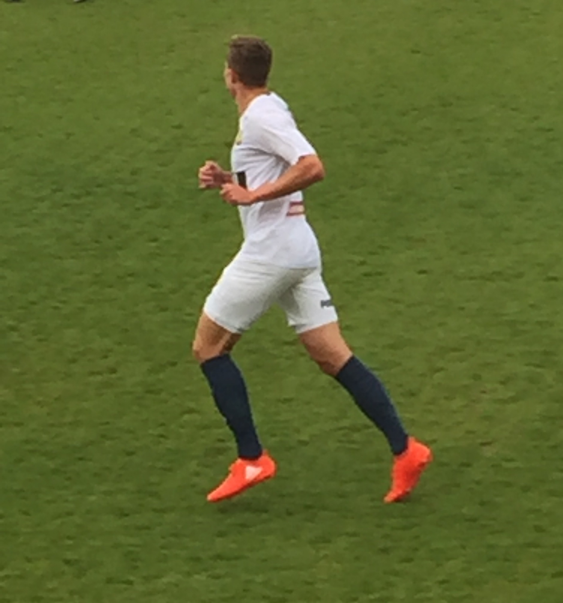 Matt Fletcher playing for Central Coast Mariners against Wellington Phoenix in a friendly at Knox Grammar School on 18 September 2016